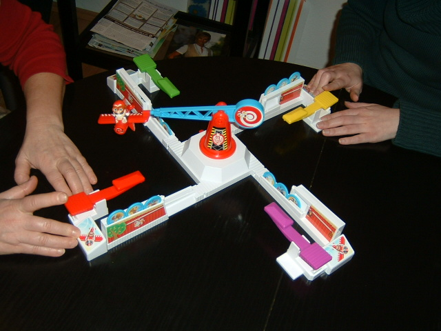 Looping Louie, a childrens game by MB games. 1994 Kinderspiel des Jahres Award in Germany